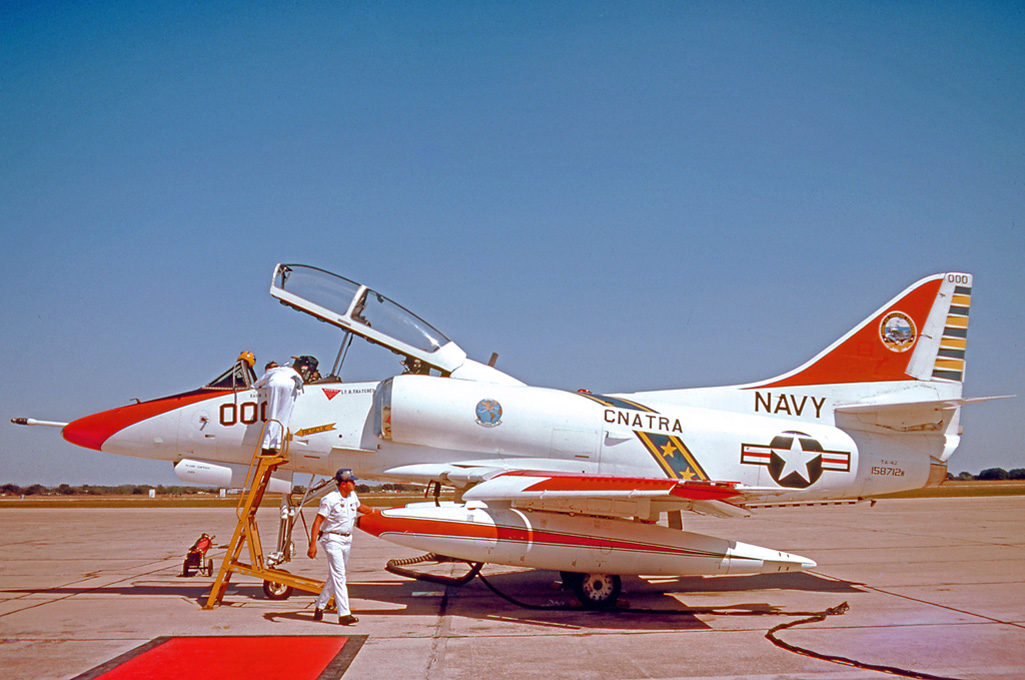 The U.S. Navy Douglas TA-4J Skyhawk (BuNo 158712) flown by the Commander Naval Air Training Command visiting Randolph AFB, Texas (USA), in 1975. 158712 was retired to the AMARC as 3A0824 on 8 September 1994.